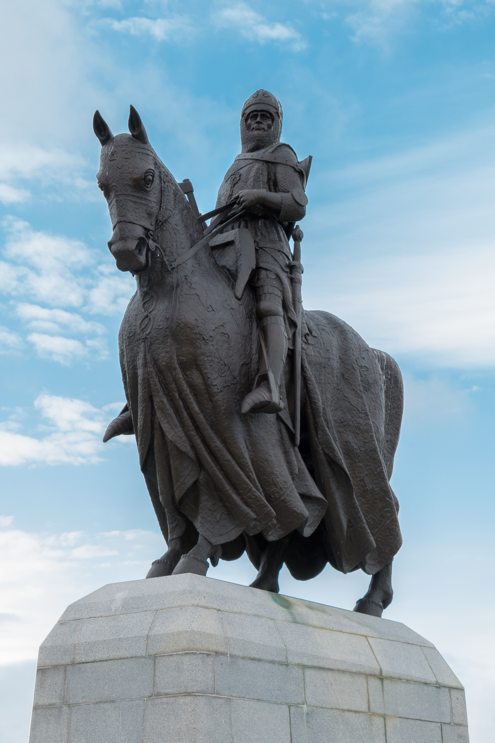 Statue of Robert the Bruce at the monument for the Battle of Bannockburn in Bannockburn